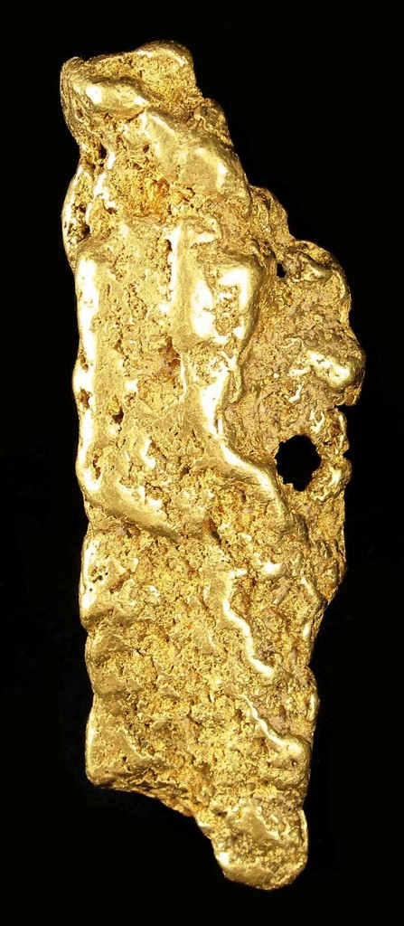 Gold Locality: Yuba River Placers area, Nevada County, California, USA (Locality at ) Size: 8.3 x 2.8 x 2.3 cm. This is a beautiful nugget of approximately 6 ounces that comes from the historic Yuba River placers area. It was mined and kept in a family collection since the 1950s or 1960s, I was told by my source, who sold that particular family collection. It has a bright, brassy patina, really interesting and curvaceous form, and a lot of surface volume for the weight. Weighs 182 grams. For this locality, it is outstanding.